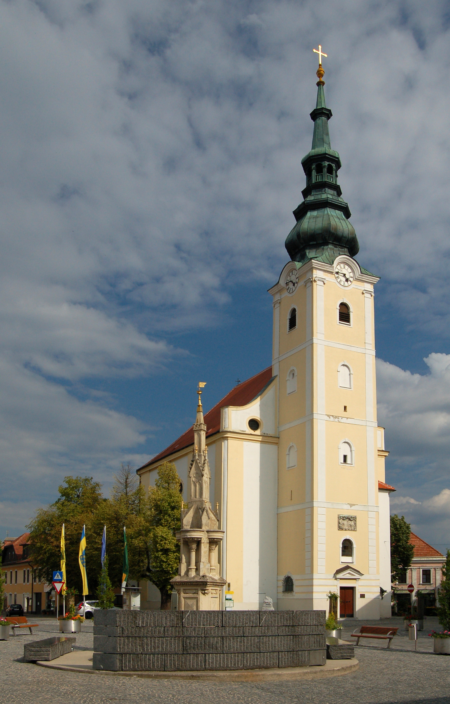 Catholic parish church hl. Andreas (St. Andrew) in Gföhl, Lower Austria, is a cultural heritage monument.